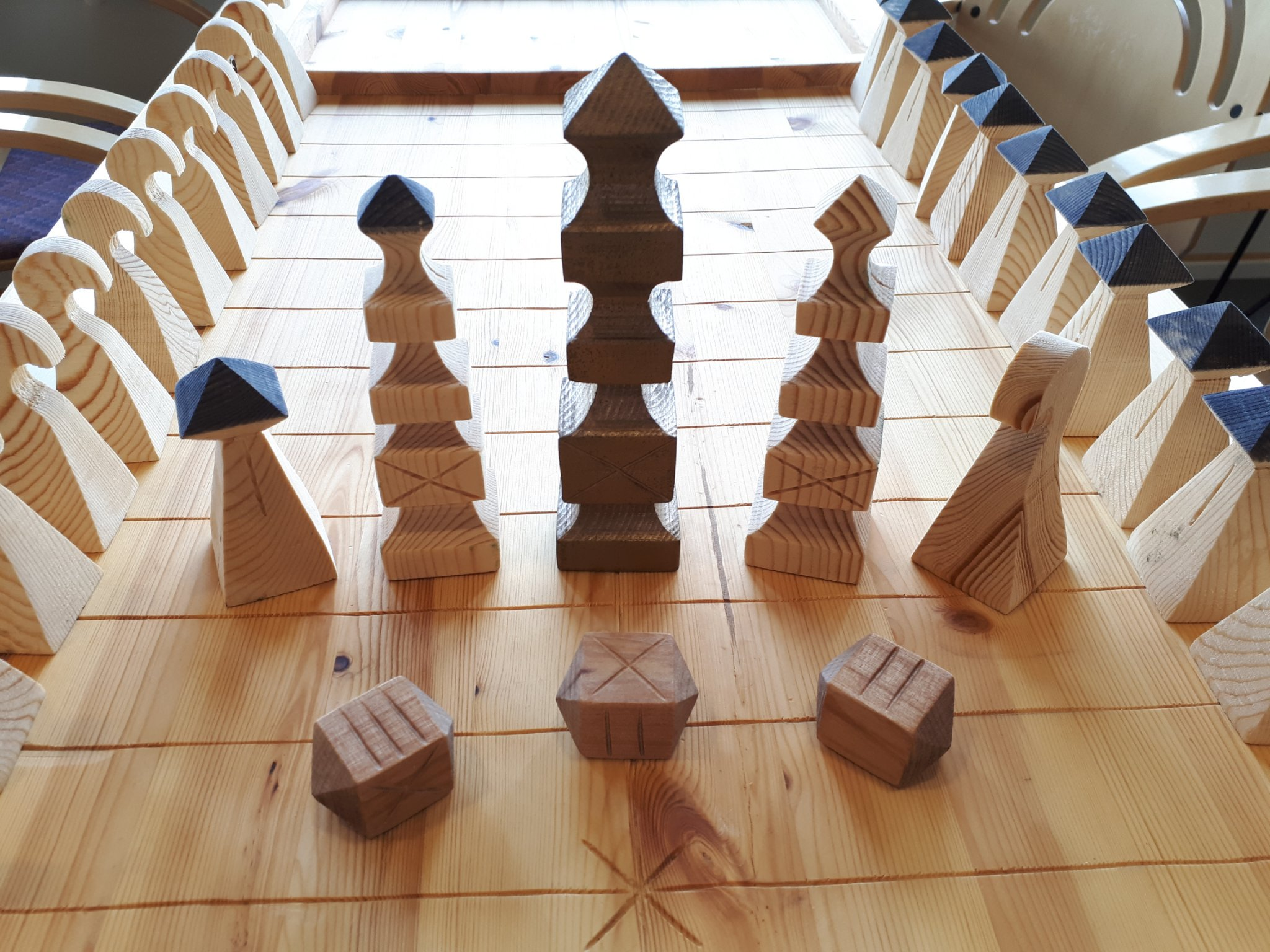 Photo of a giant sáhkku set at the Varanger Sámi Museum in Unjárga / Nesseby, 2018. Left to right: row of female soldiers, male soldier, queen of the men, king, queen of the women, female soldier, row of male soldiers. Foreground: three sáhkku dice. Set made by Roger Persson. Photo: Mikkel Berg-Nordlie